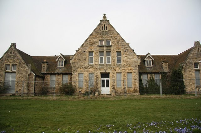 Grantham & District Hospital. Redundant Victorian facade of the old hospital on Manthorpe Road.